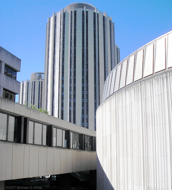 The Litchfield Towers at the University of Pittsburgh are seen rising between the Barco Law Building (left) and David Lawrence Hall (right). photo by Michael G White